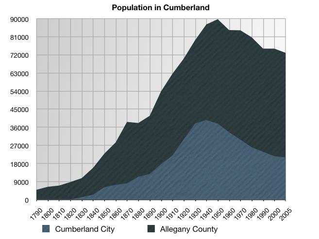 A graph created in Numbers showing a comparison of the populations of Cumberland, and Allegany County in Maryland. The data was pulled from the Cumberland Wikipedia article.